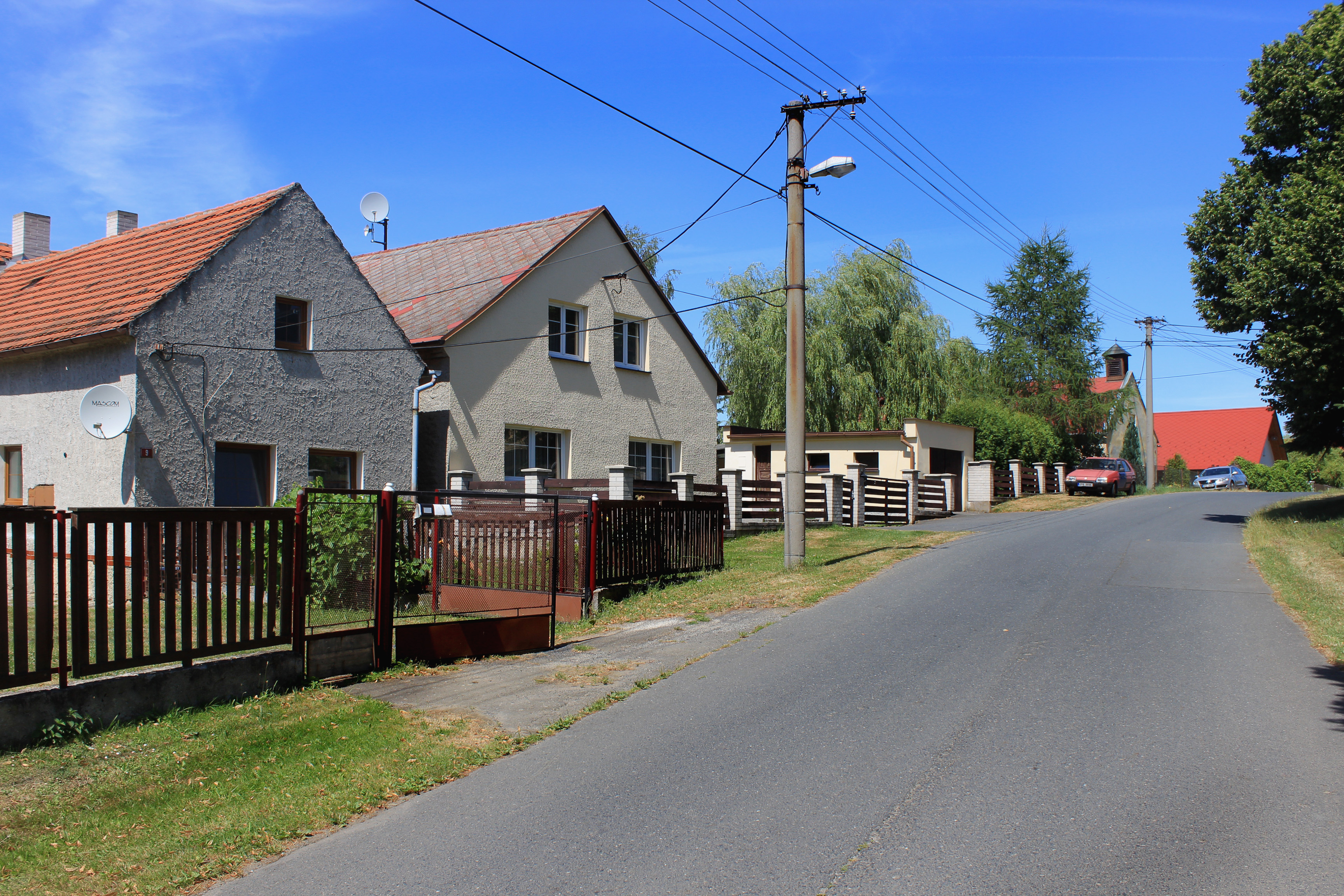 Main street in Starý Pařezov, part of Pařezov, Czech Republic.